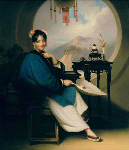 'A Geisha Girl' (note: despite the name of the painting, it does not feature a geisha)